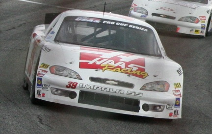 Alex Bowman drives the Haas CNC Racing Chevrolet at North Wilkesboro Speedway, lining up for the USAR Pro Cup Series Brushy Mountain 250 on October 3, 2010